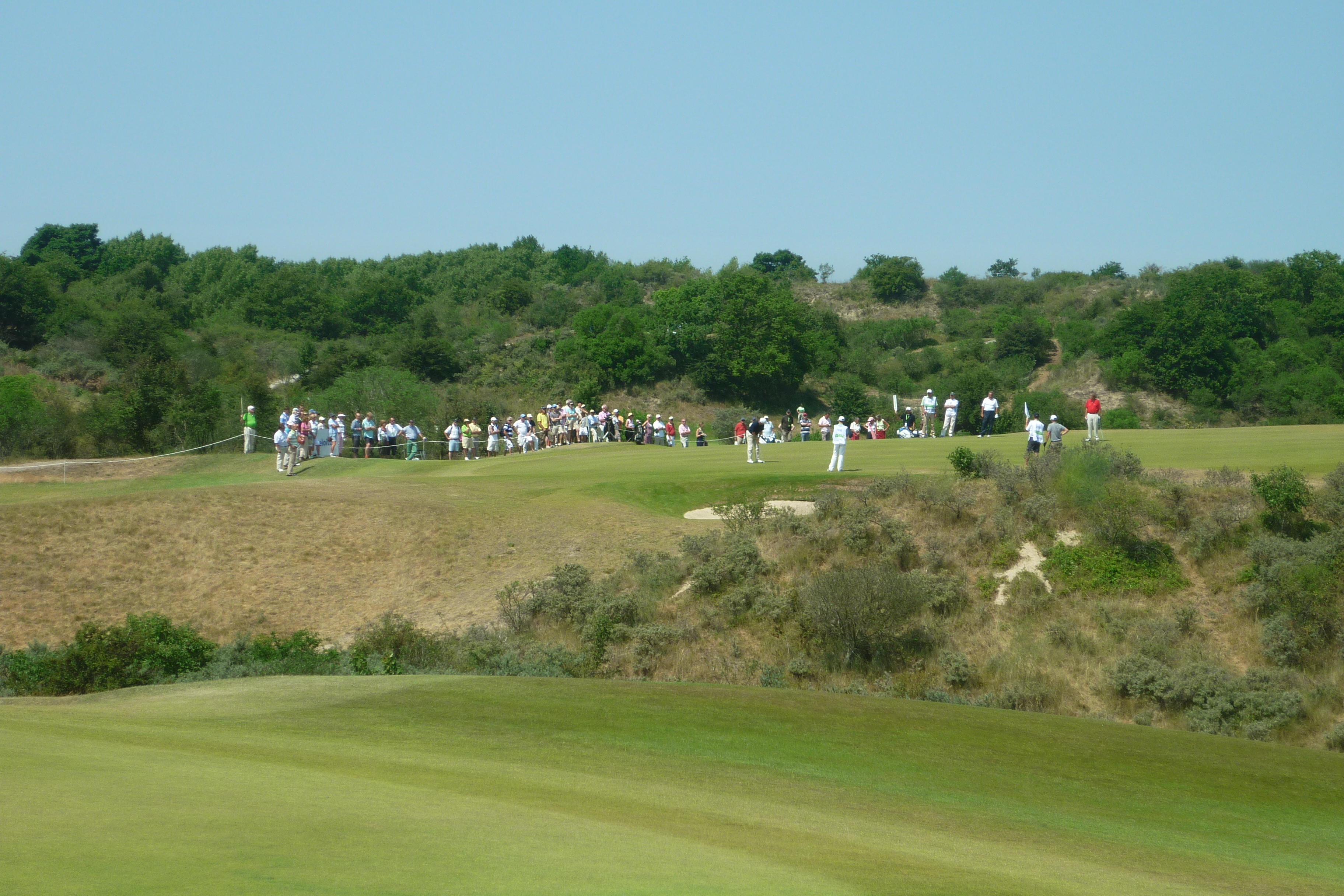 Spectators at Van Lanschot Senior Open